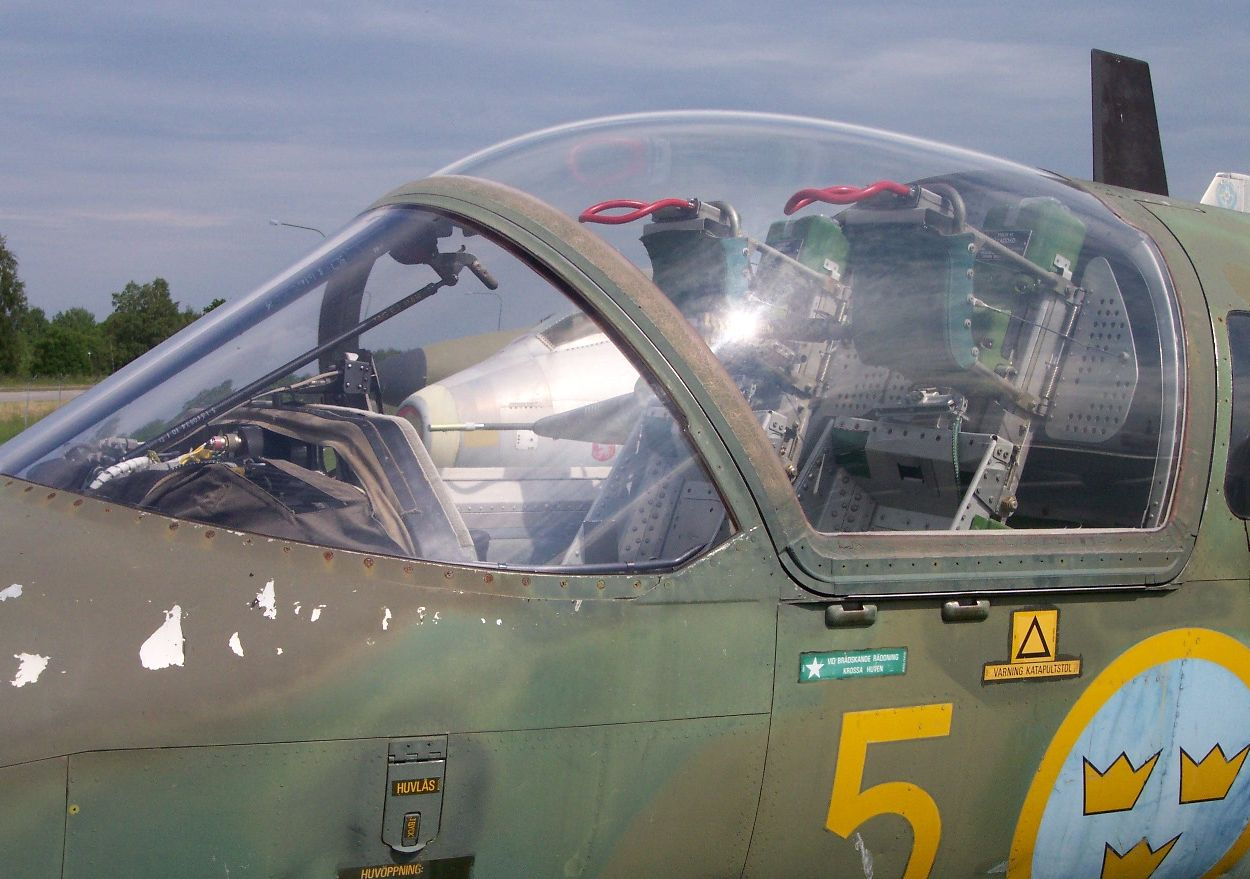 Saab 105 aka Sk 60A Cockpit.